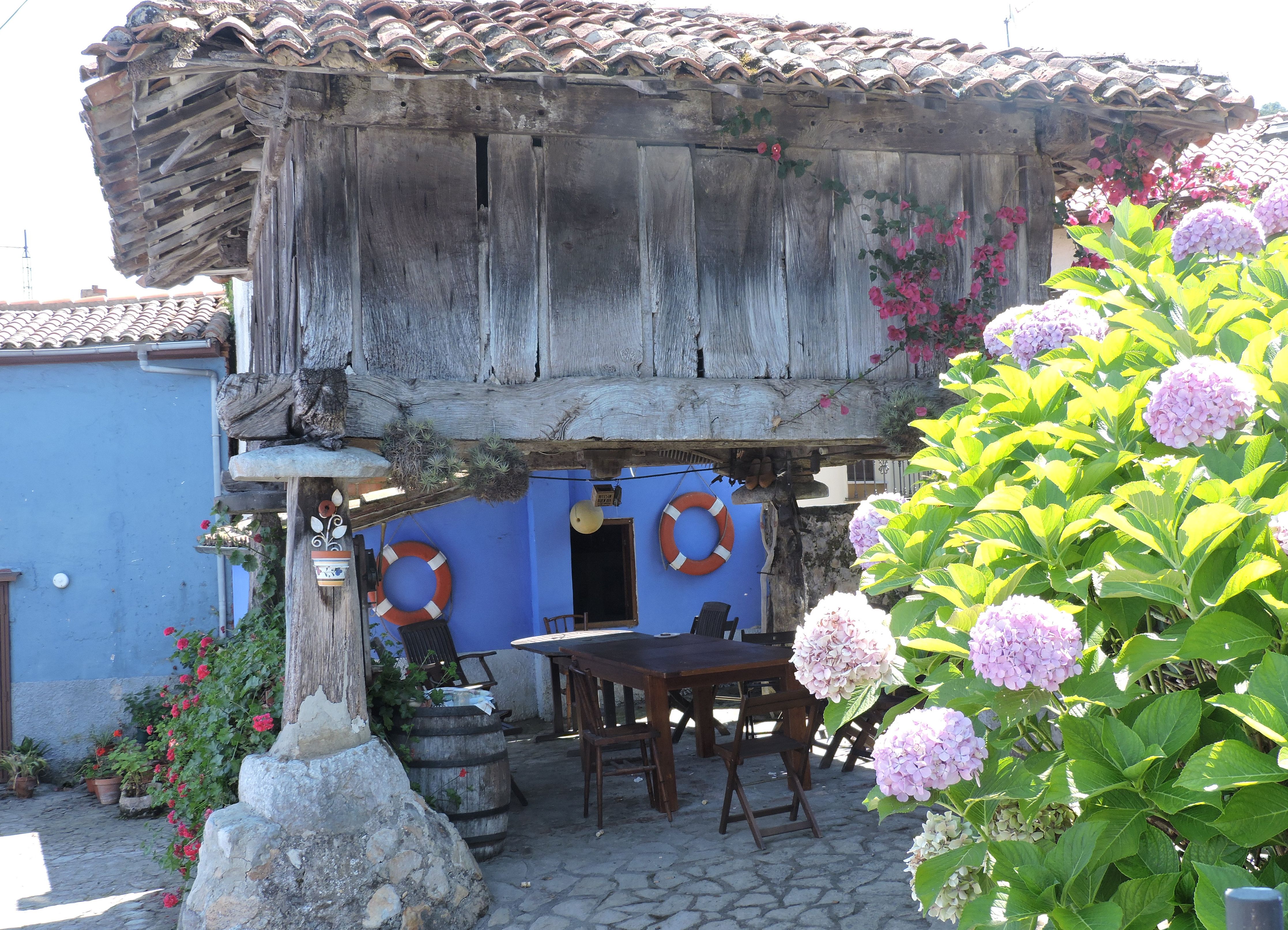 Naves (Llanes, Spain): old house Kiswahili: Naves (Llanes): vieja casa